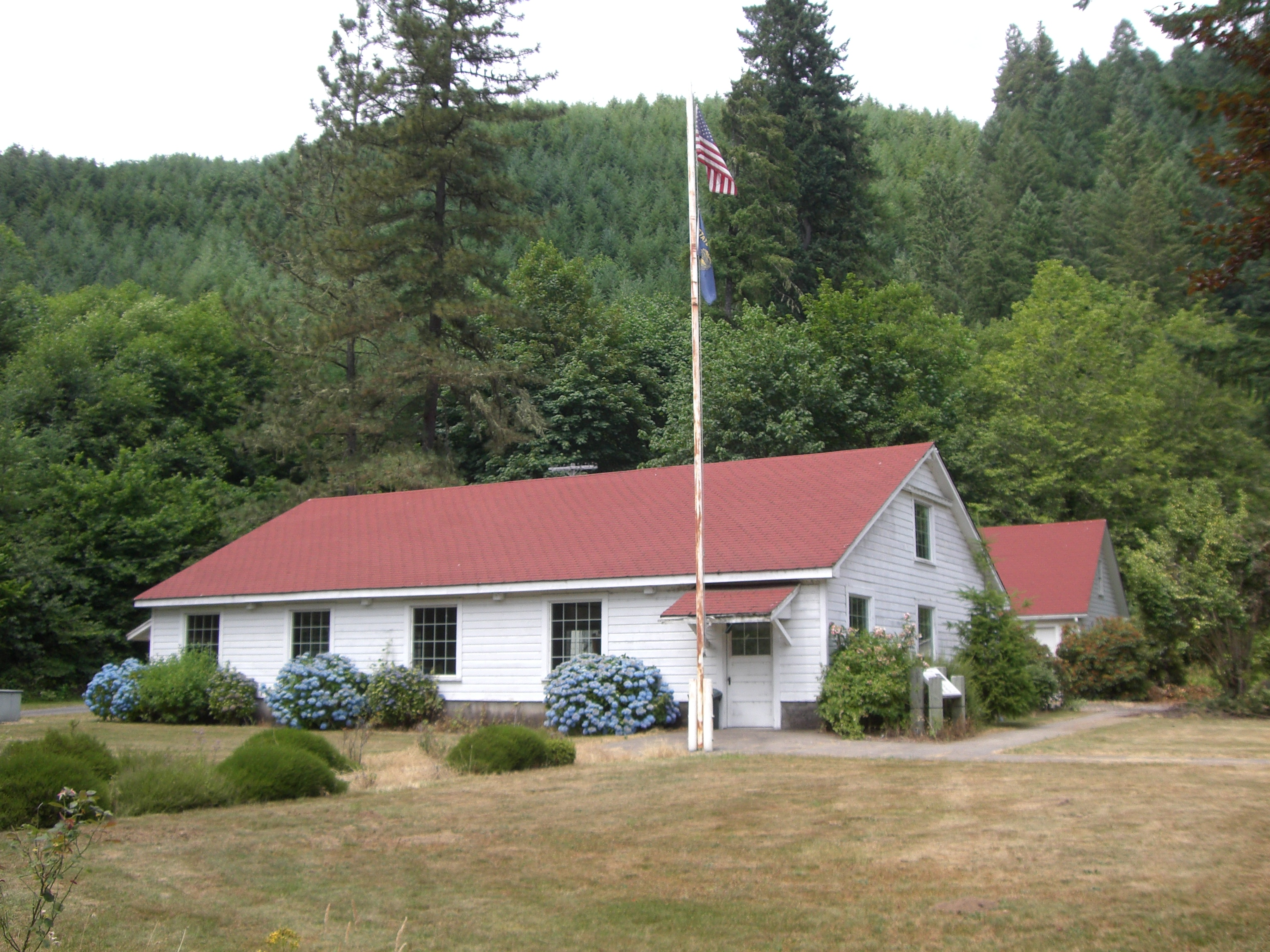 The Old McKenzie Fish Hatchery building was used to raised trout and salmon for release into the McKenzie River in western Oregon from 1928 until 1953.